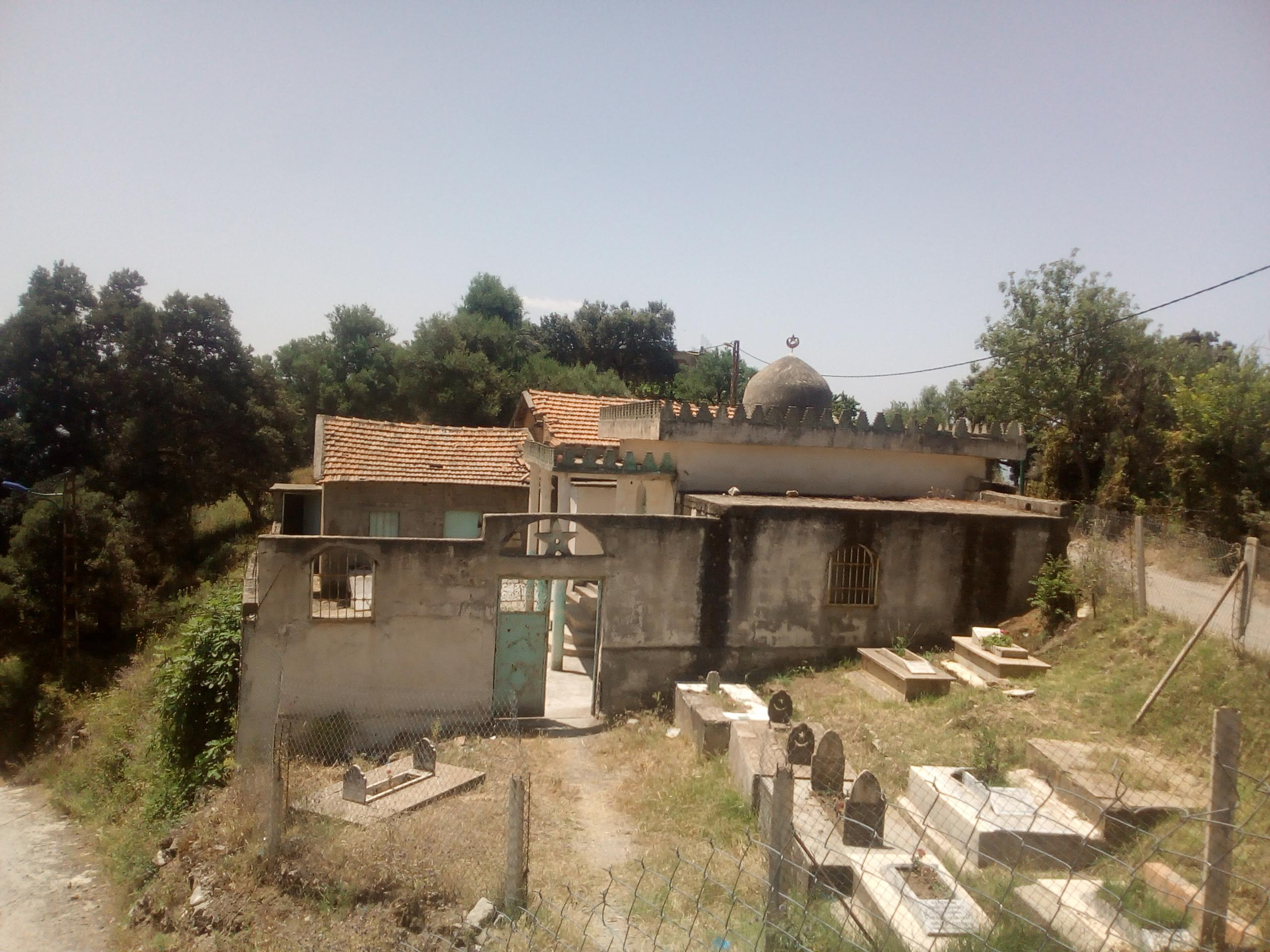 Historique place of mezdatta